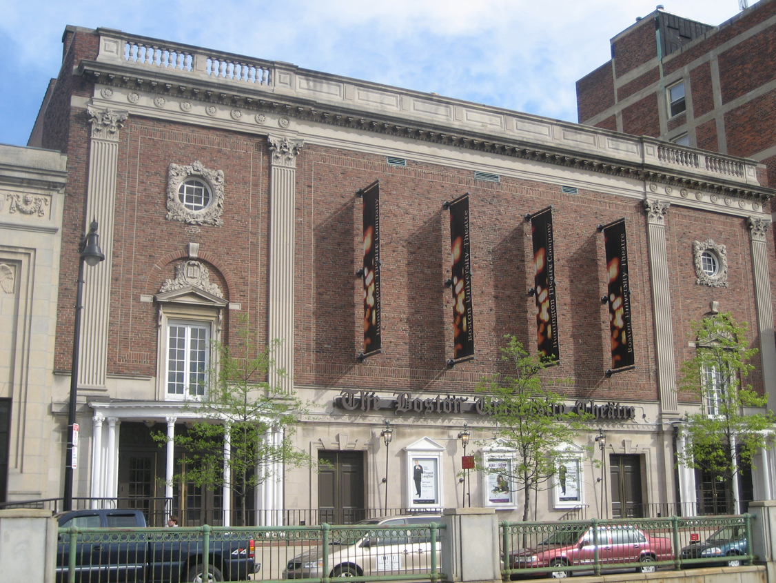 Boston University Theatre.